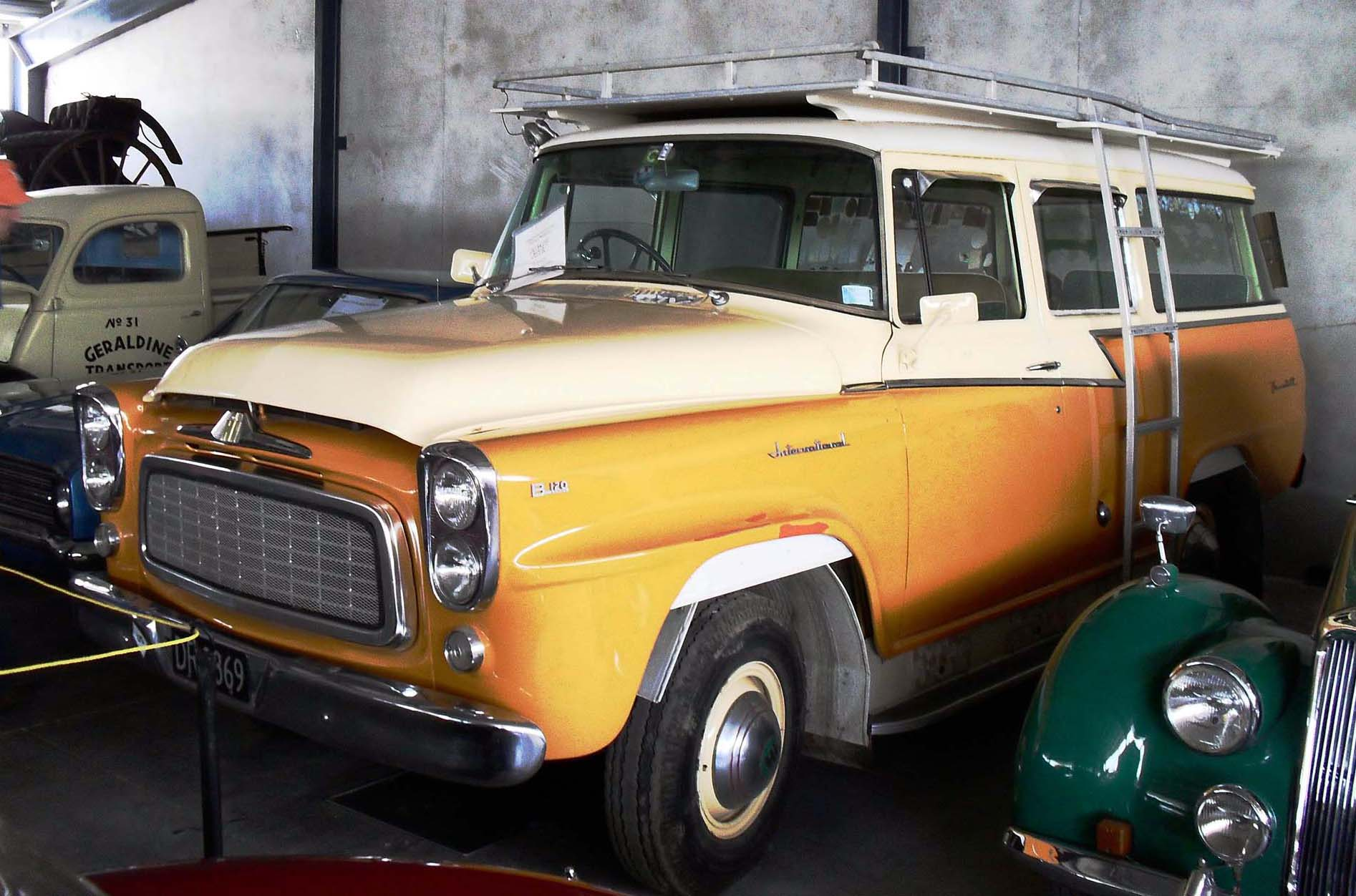 An International B120 Travelall at the Geraldine Vintage Car & Machinery Club Museum, New Zealand